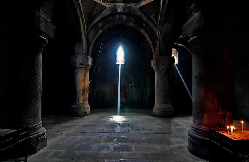 Kechris Ch., Armenia. View: indoor